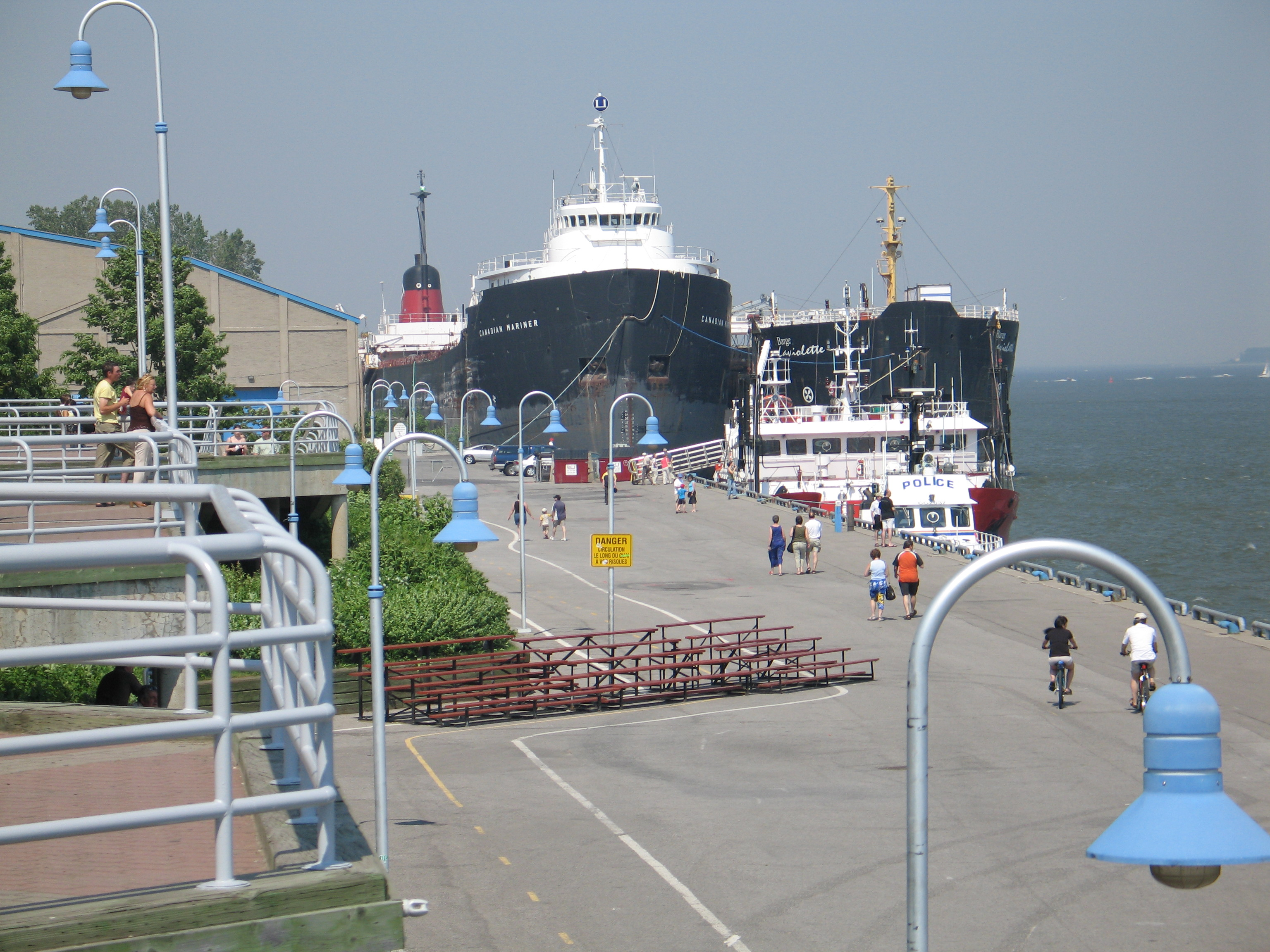 The Trois-Rivières, Quebec HarbourPhoto: Claude Boucher, June 18, 2006.